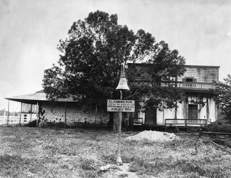 Exterior view (from southeast) of the Pio Pico Adobe, "El Ranchito." It was located on the east bank of the San Gabriel River, to the south of Whittier. A bell-bearing sign reads, "El Camino Real. This was the house of the last governor under Mexican rule, Don Pío Pico."